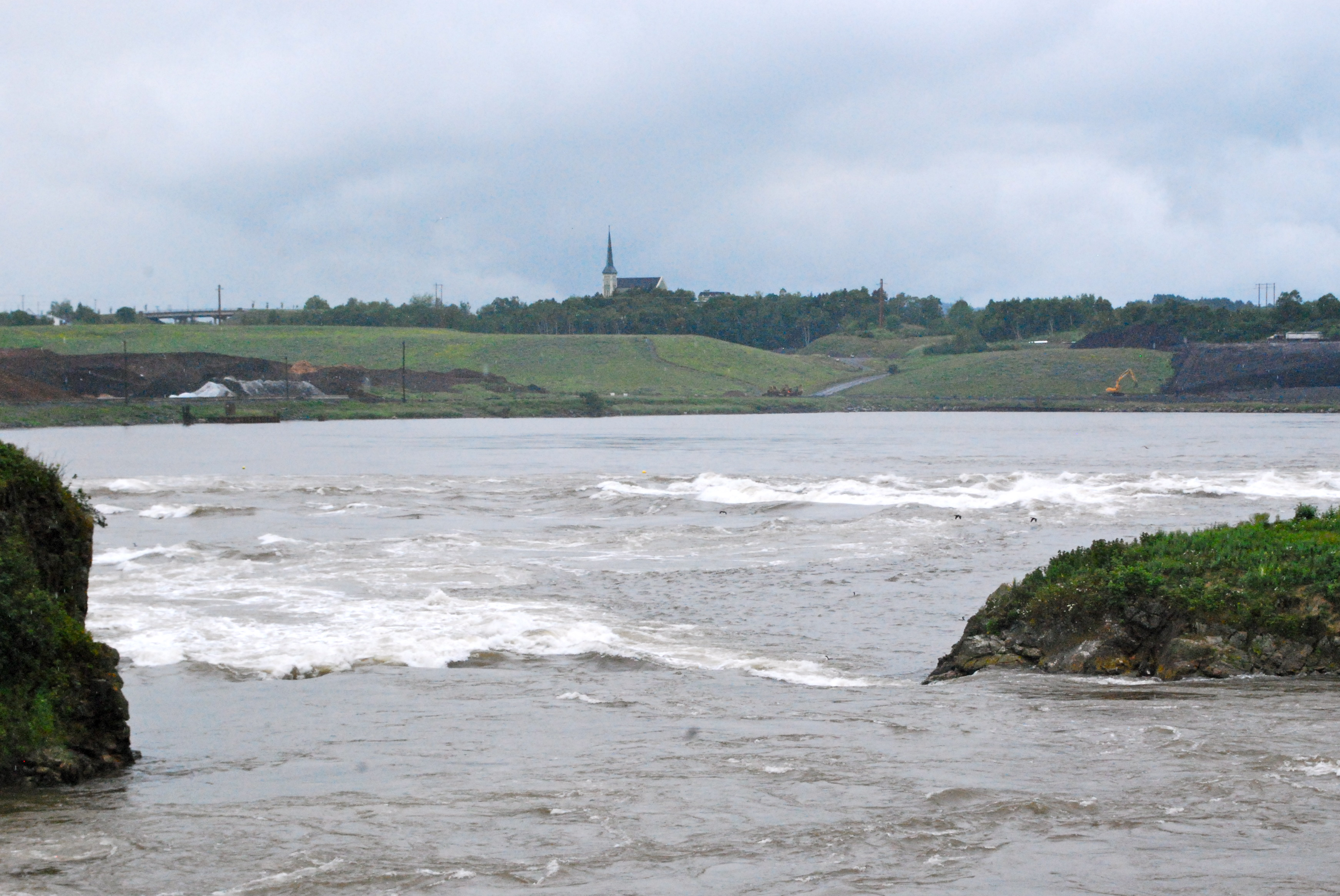 Reversing Falls at high tide between Crow Island and Middle Island